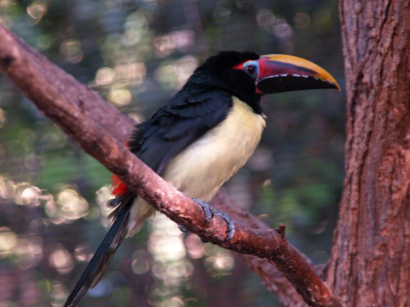 A Green Aracari at Reid Park Zoo, Tucson, USA.